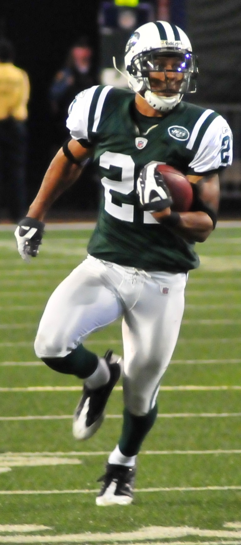 Dwight Lowery returning a kickoff